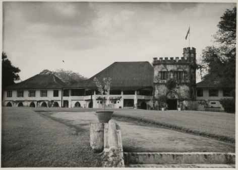 The front of Astana Sarawak in 1959